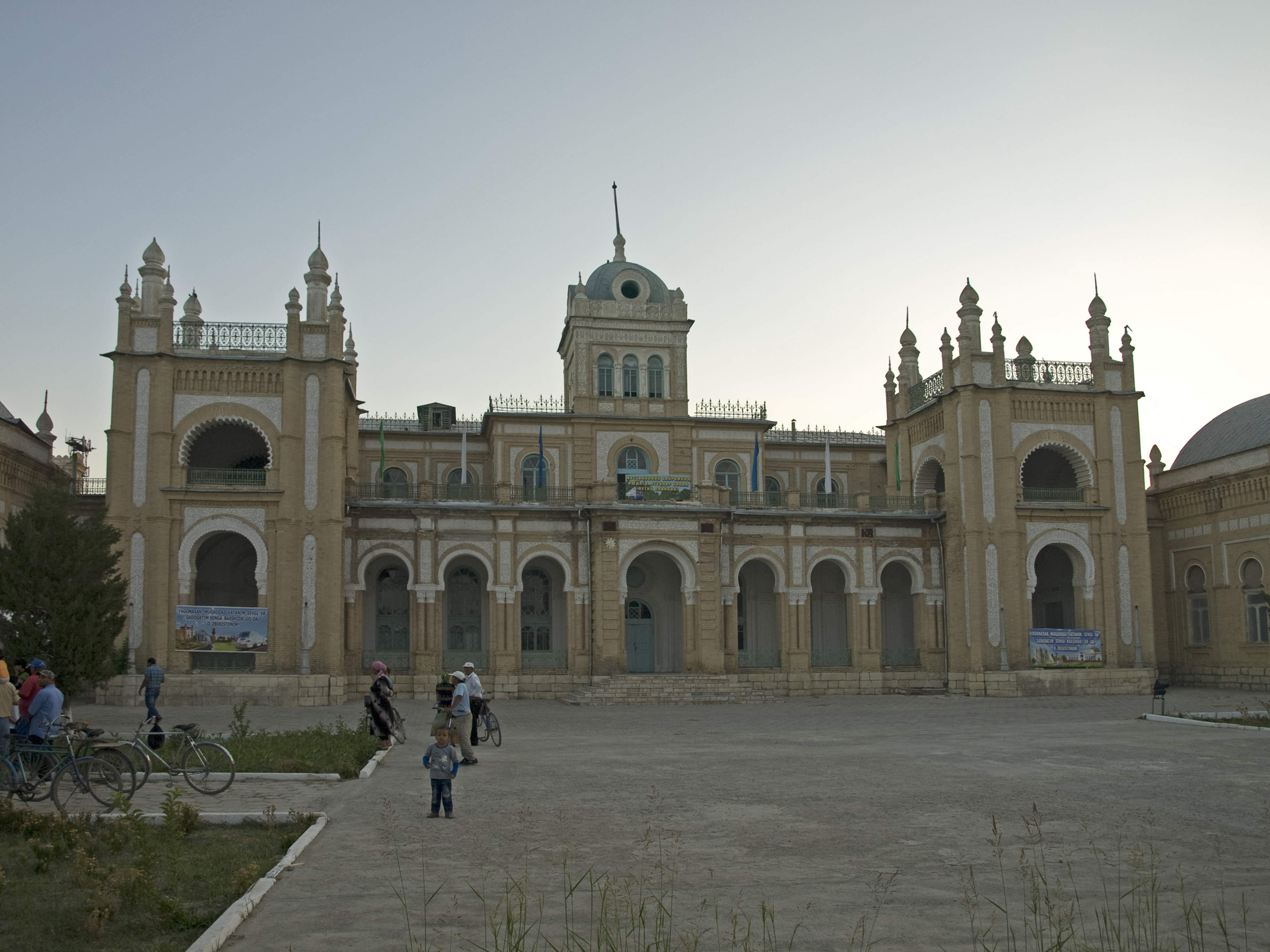 Travel Palace, front view, Kogon